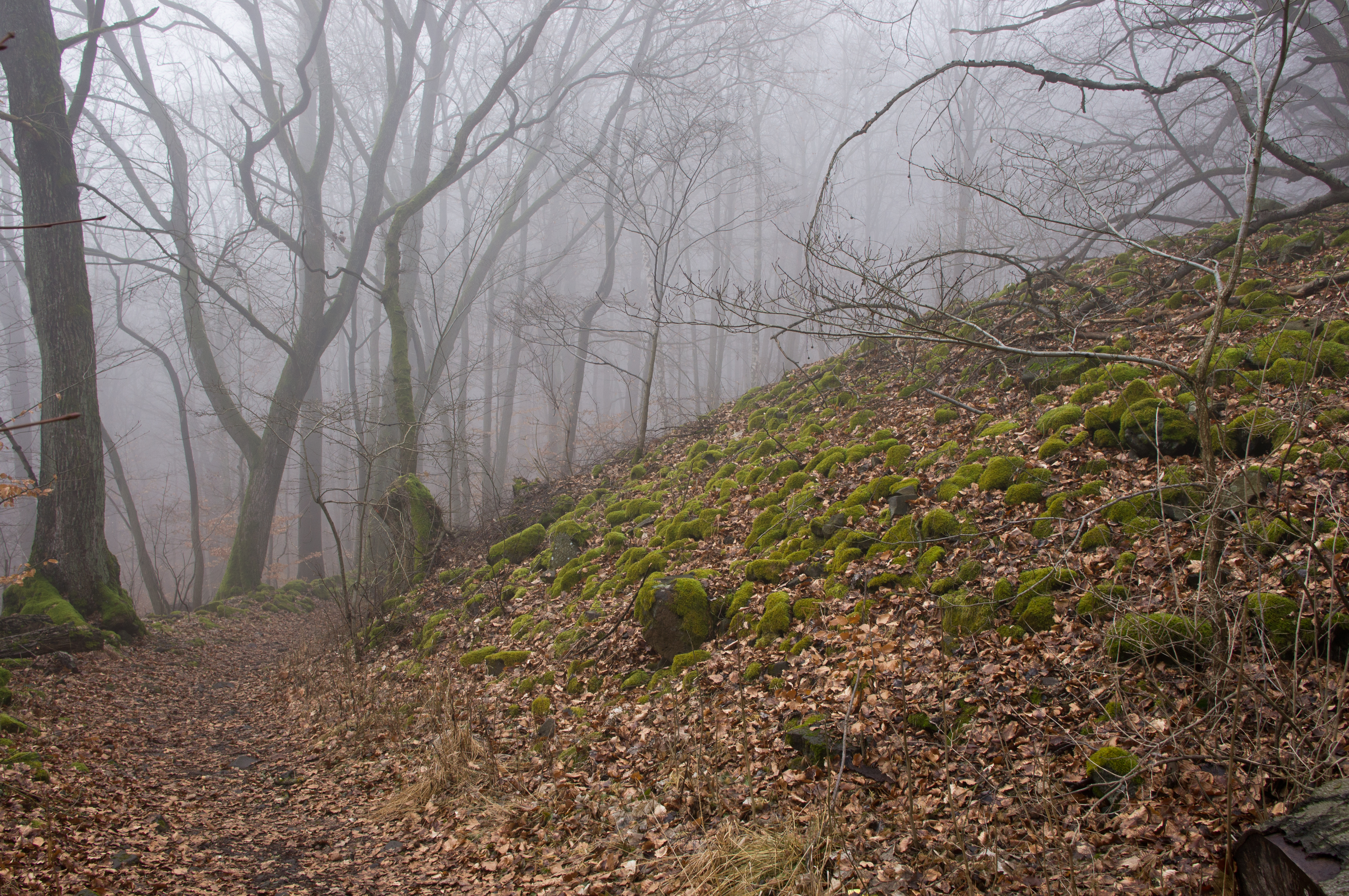 Wall around the settlement of the oppidum Steinsburg, Kleiner Gleichberg, Thuringia